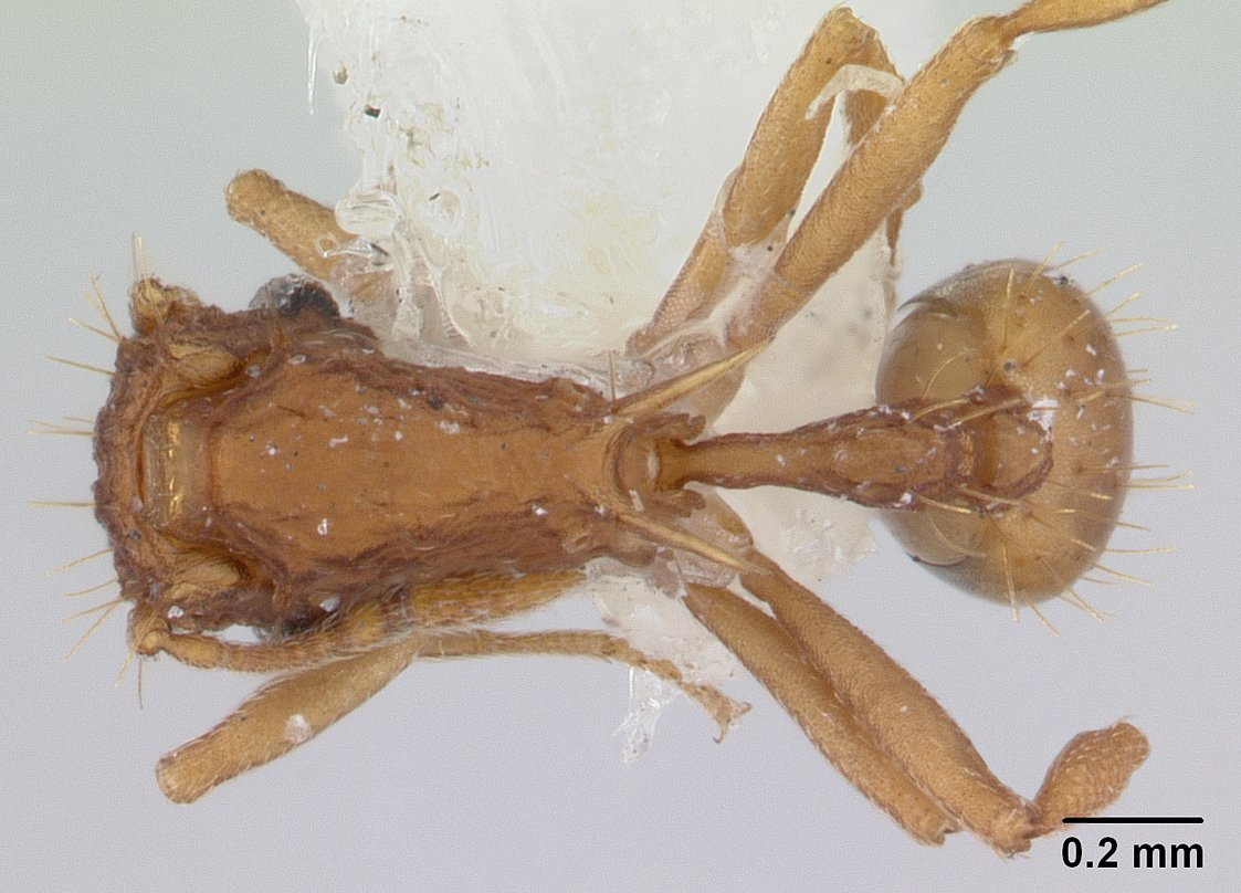 Dorsal view of ant Blepharidatta brasiliensis specimen casent0178580.